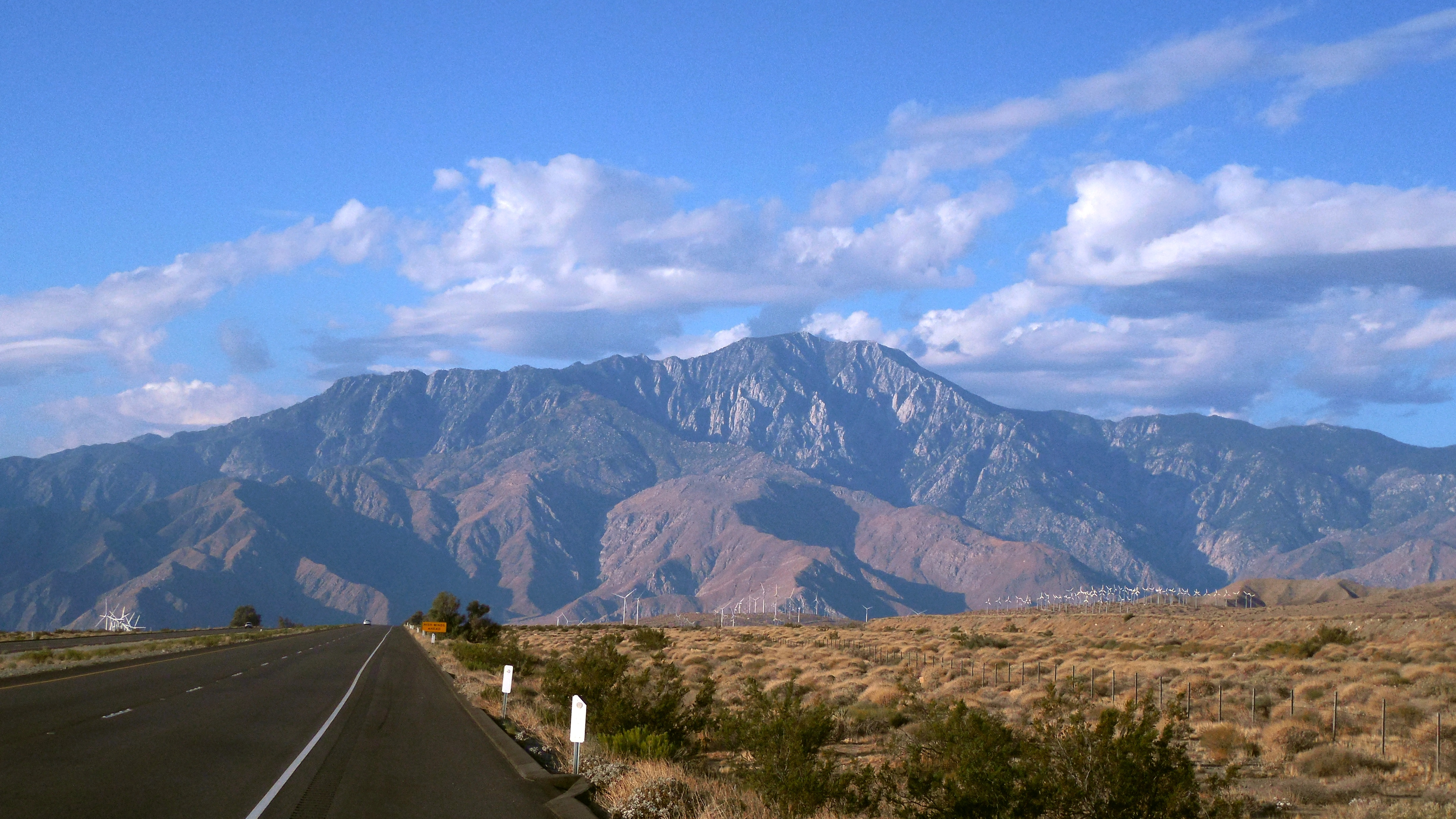 Southward view of the San Jacinto Mountains from California State Route 62 southbound along Twentynine Palms Highway in Whitewater, CA., just north of Interstate 10 in Riverside County.